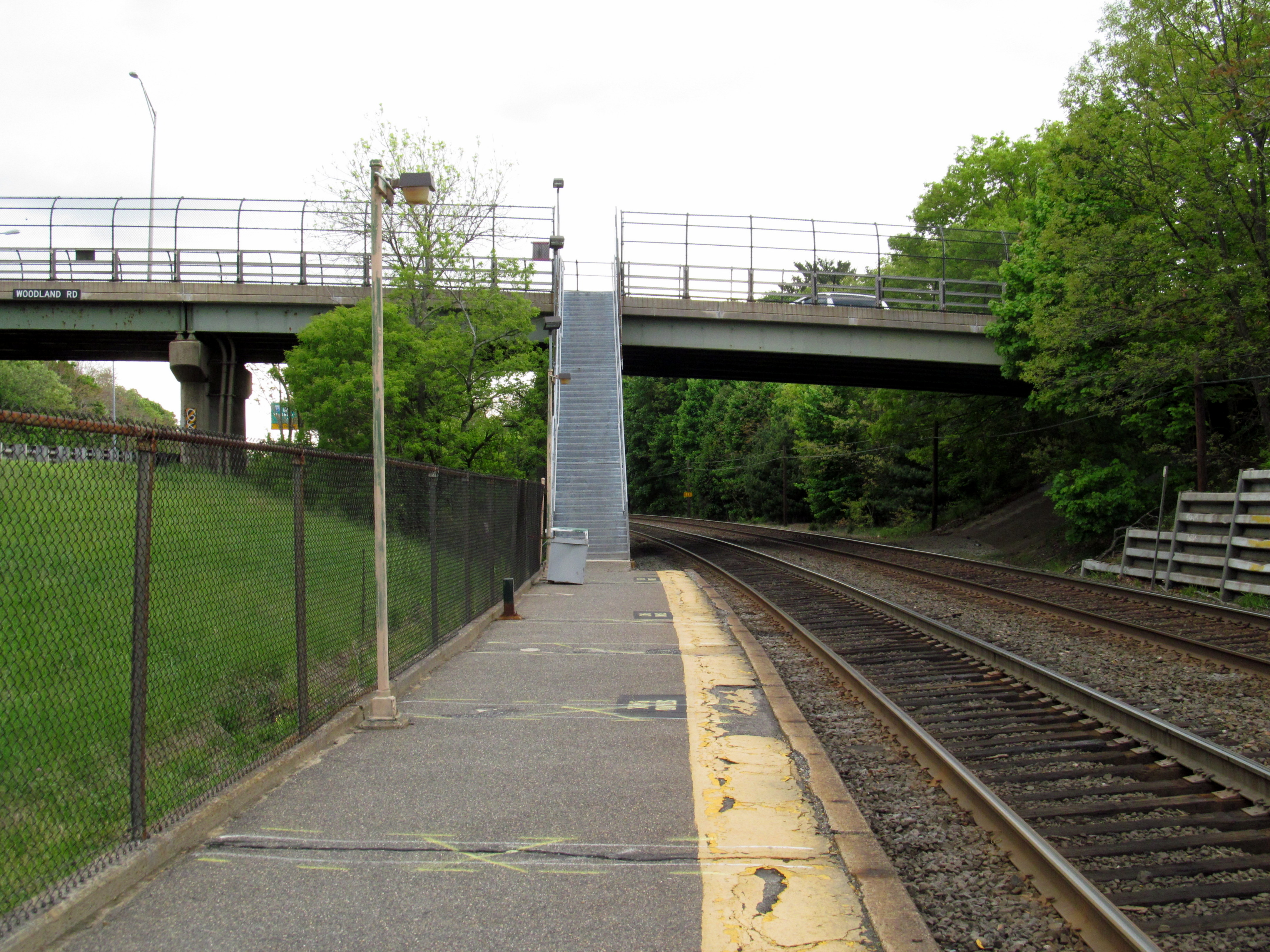 The west (outbound) end of the Auburndale platform, with the rickety set of stairs leading to Woodland Road